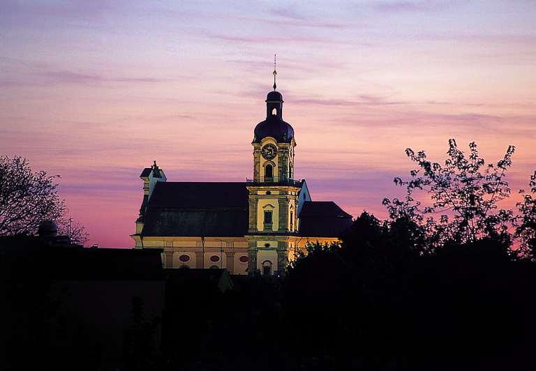 church of the town Neckarsulm